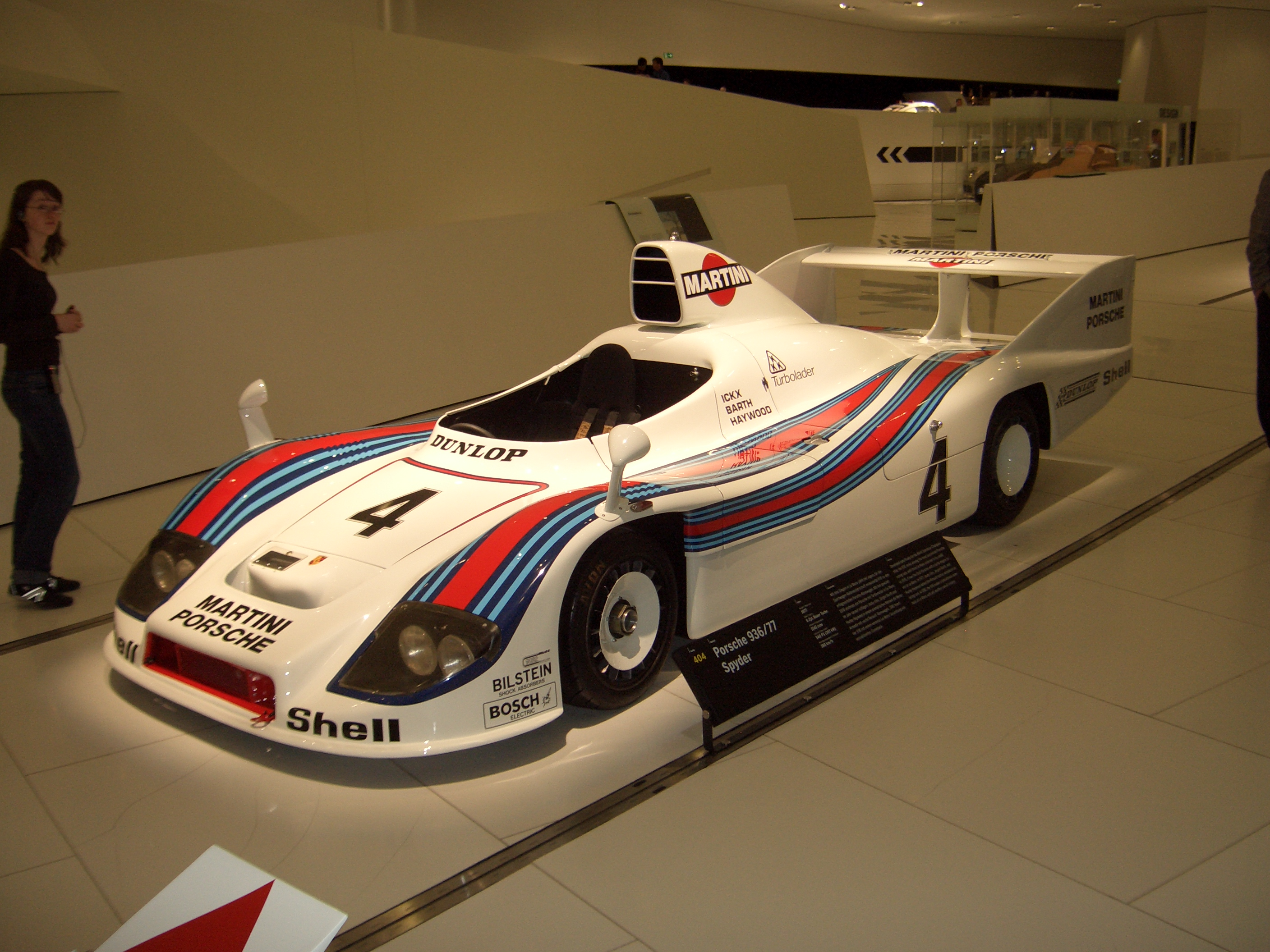 Porsche 936-77 Spyder 1976 frontleft - seen at PORSCHE MUSEUM in Stuttgart, Germany.